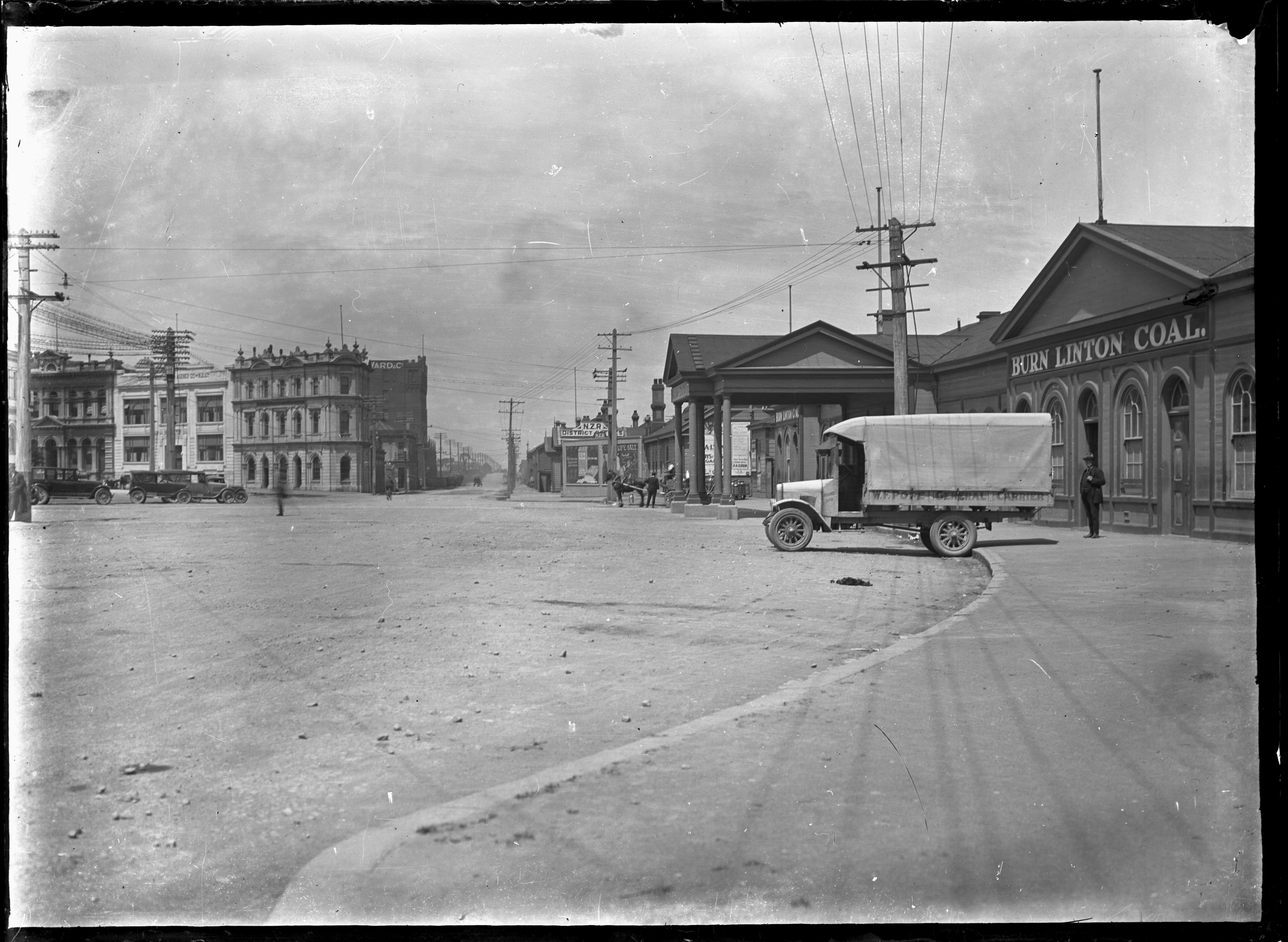 View of the square outside the Invercargill Railway Station, with the premises of Burn Linton Coal company on the right. A covered truck is parked outside the coal company, and outside the railway station there is a horse-drawn carriage. Photographed by Albert Percy Godber circa 1925.